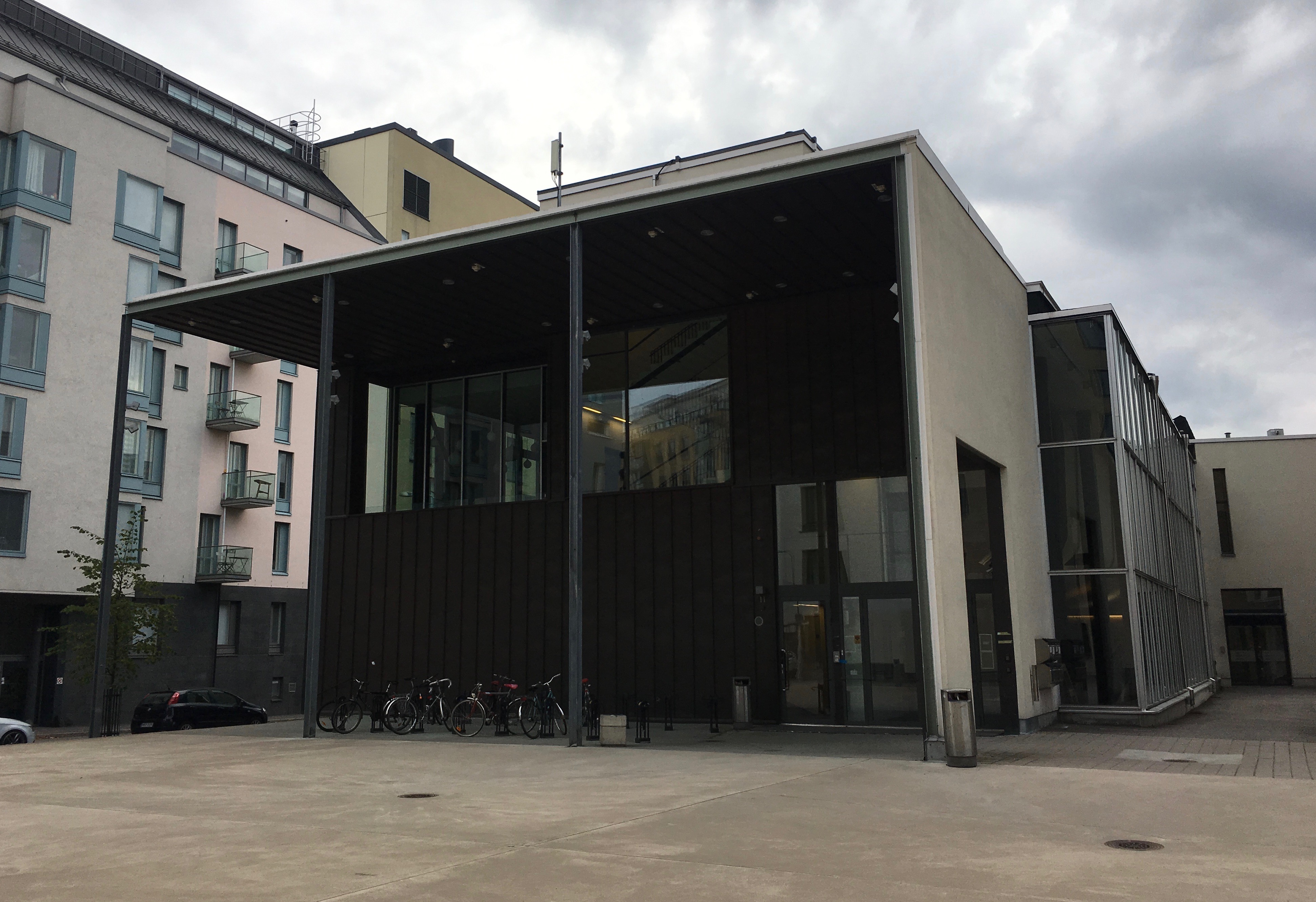 Domus Gaudium building, owned by the Student Union of the University of Helsinki, in Leppäsuo, Helsinki, Finland.